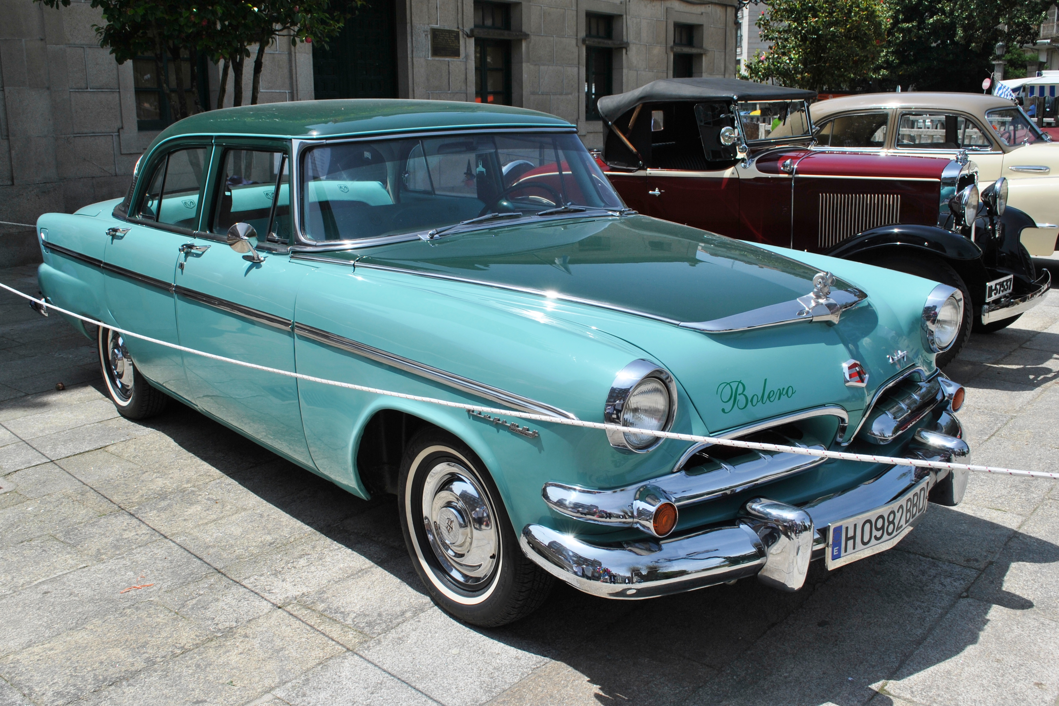 1955 Dodge Coronet four-door sedan at Chococlásico in Pontevedra, Spain.